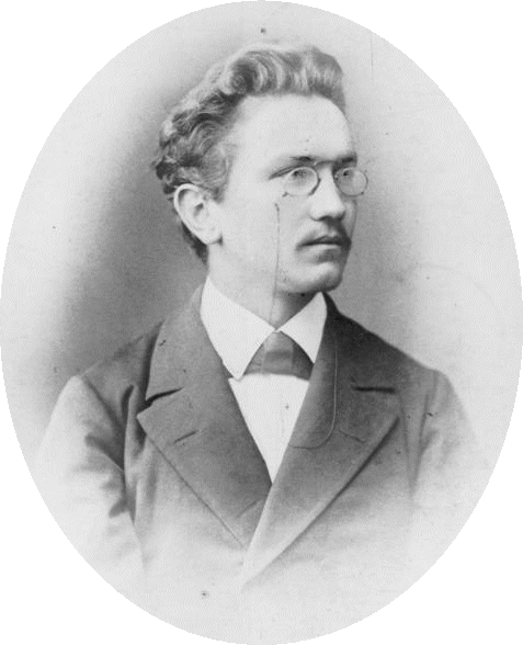 Hans Huber ( June 28 1852 – December 25, 1921) was a composer from Switzerland.